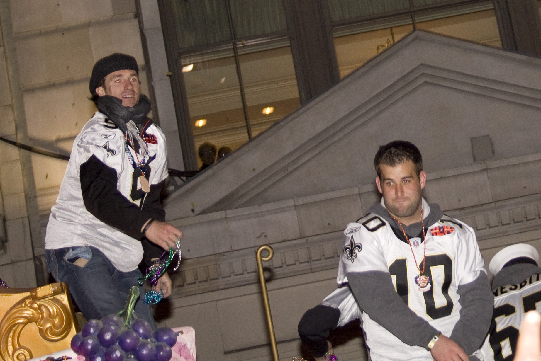 New Orleans Saints Super Bowl Victory Parade on Canal Street. L-R: (#9) Drew Brees, (#10) backup QB to Brees, Chase Daniel